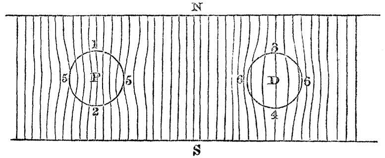 Figure 3, Page 35 from Philosophical Transactions 1850